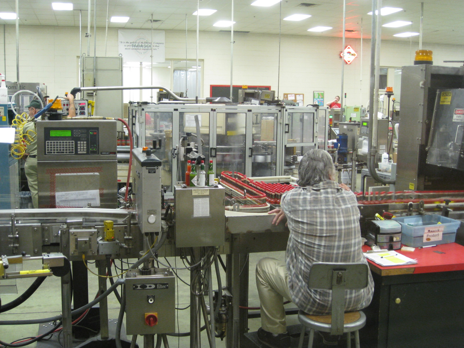 Tabasco Pepper Sauce factory hall, Avery Island. Photo by Tim Bekaert.